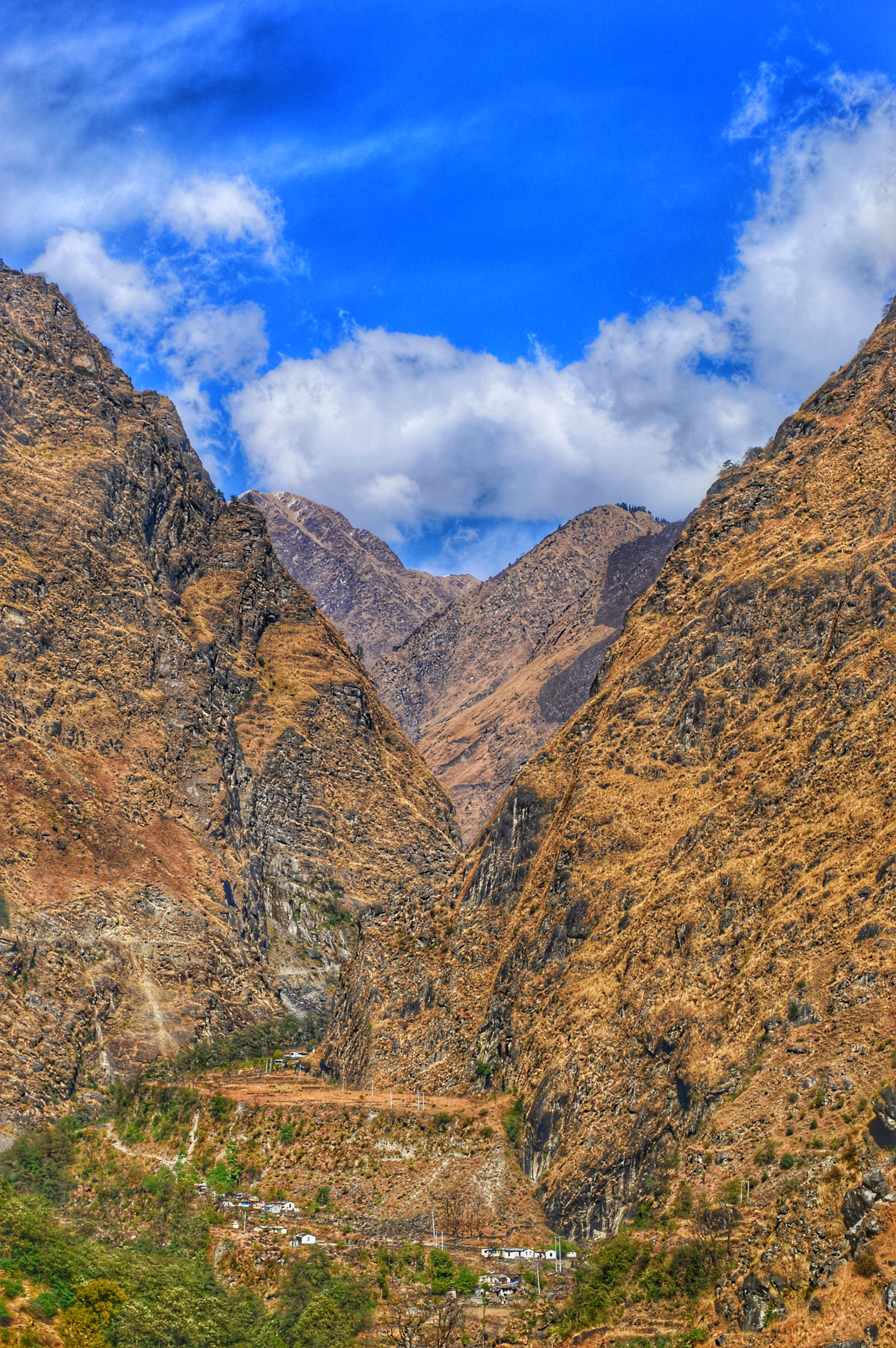 The gorge separates the major peaks of Dhaulagiri (8,167 m or 26,795 ft) on the west and Annapurna (8,091 m or 26,545 ft) on the east. If one measures the depth of a canyon by the difference between the river height and the heights of the highest peaks on either side, the gorge is the world's deepest. The portion of the river directly between Dhaulagiri and Annapurna I (7 km downstream from Tukuche) is at an elevation of 2,520 m or 8,270 ft, 5,571 m or 18,278 ft lower than Annapurna I.[2] As tectonic activity forced the mountains higher, the river cut down through the uplift.